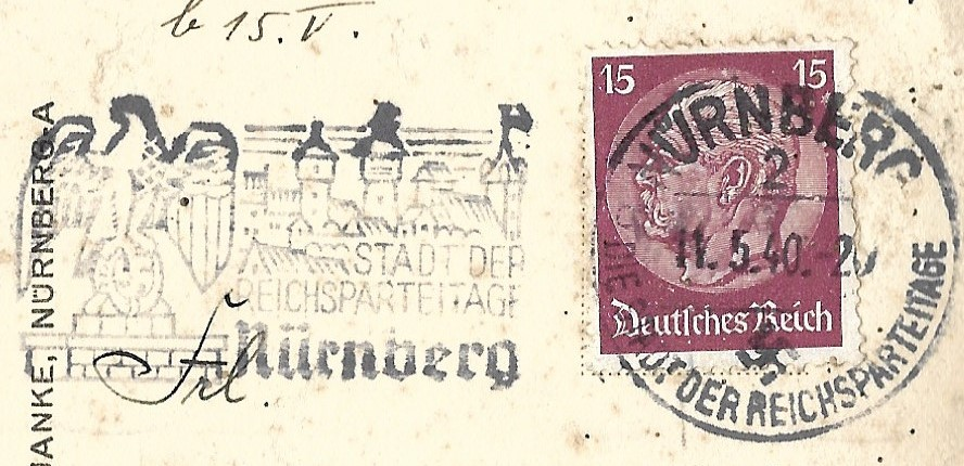 Postal marking from Nuremberg, May 1940, with the indication of the Nazi Nuremberg rallies (Stadt der Reichsparteitage)